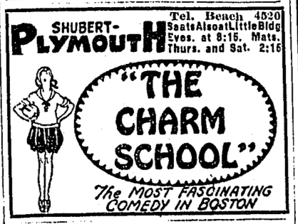 Advertisement for Plymouth Theatre, Boston, Massachusetts, USA